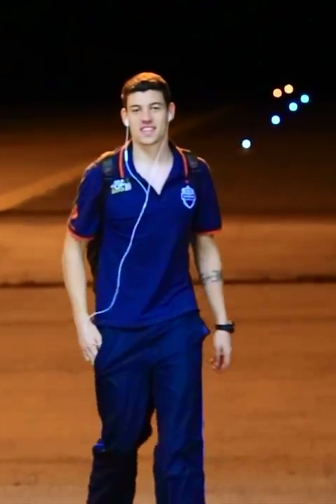 Osmar Barba at Buriram Airport